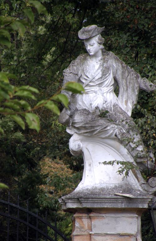 Statue of a woman on the gates to the Archibishops' Palace in Obroshyno, Lviv Region, Ukraine Barocco